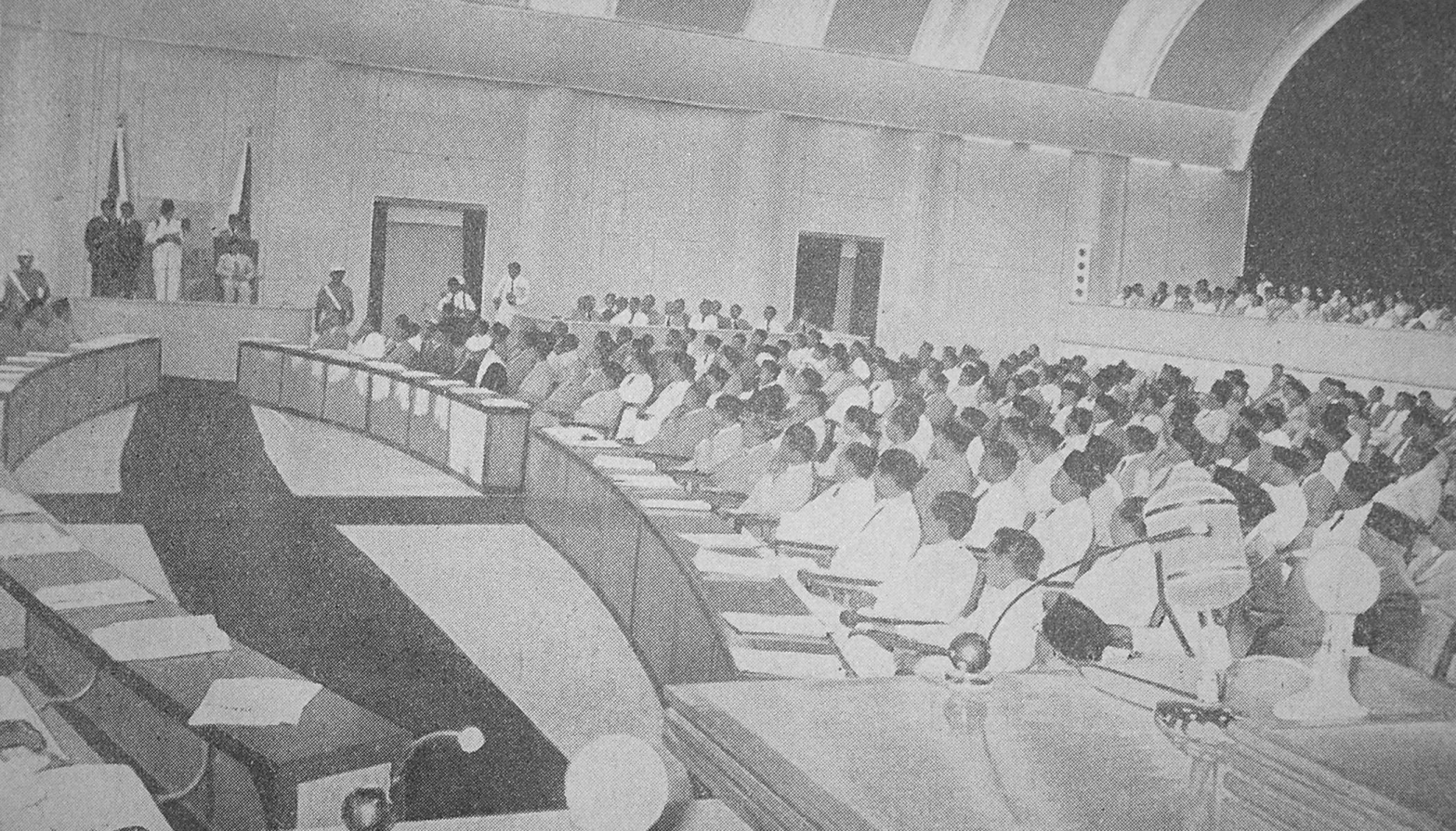 The opening session of the Indonesian Constitutional Assembly. President Sukarno gives his inauguration speech on 10 November 1956